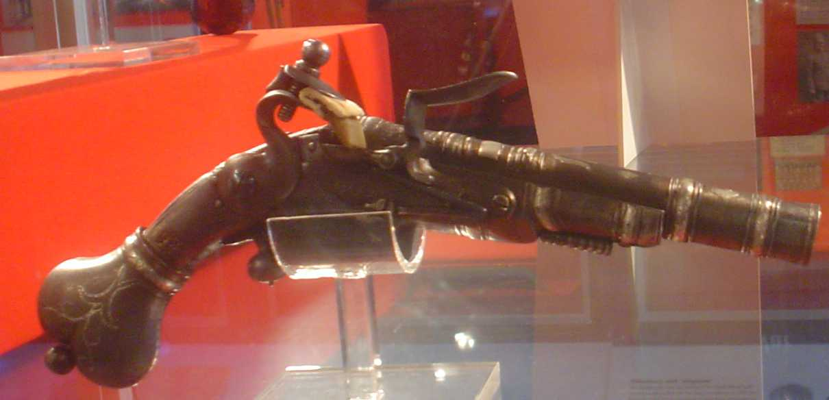 author: Cyril Thomas